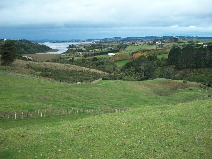 From the Pacific Coast highway, looking towards the Hauraki Gulf, near Whitford, in Auckland New Zealand. Beautiful countryside, farms, gulf in distance. This picture is public domain from An American's perspective on New Zealand (see notice at top of article). Questions? Ask here.